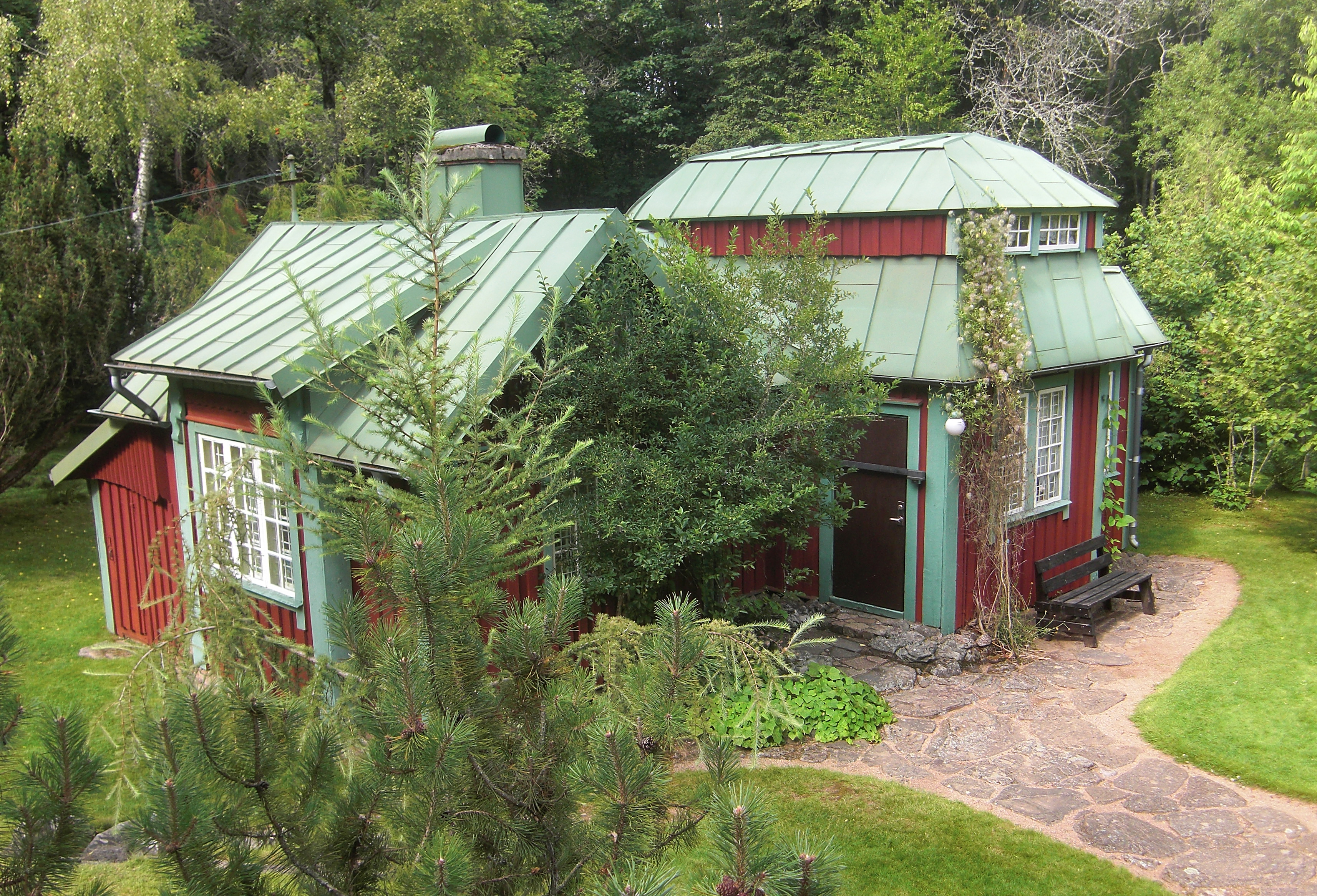 The cottage of Frans Johan Gegerfeldt at Alphems arboretum. Alphems arboretum is a garden in Floby parish, Vilske hundred, Falköping municipality. former skaraborg county, Västergötland, Västra Götaland county, Sweden. In the foreground a Mountain Pine (Pinus mugo) and a young Larch (Larix sp.) can be seen.